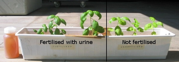 Reuse of urine collected at an office building in Eschborn, Germany with urine-separation toilets. The right plants are not fertilised, while the left plants are fertilised with urine. The fertilised plants are stronger, taller and have a stronger green color of the leaves. The bottle contains the collected and stored urine. In order to see the effect of urine fertilization more clearly, we used very nutrient-poor soil: it is a 20/80 mixture of sand and of clay granules (to hold moisture). The pictures were taken on 07.05.2009 by P. Feiereisen.